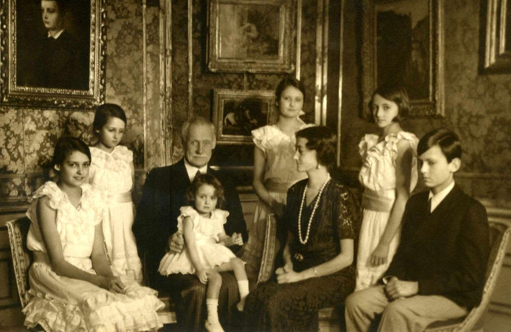 Rupprecht and Antonia with their children in the late 1930s.